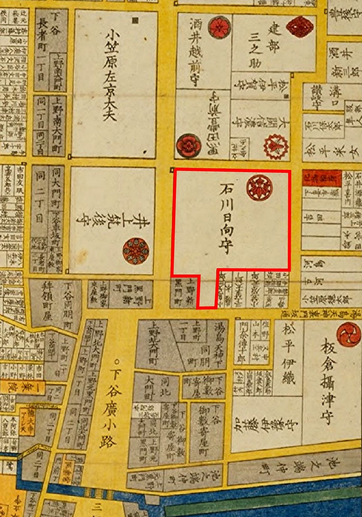 Residence of Ishikawa at Edo